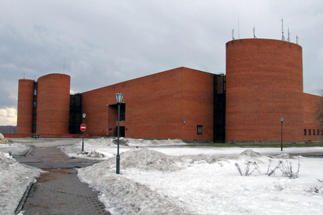 Orlov Museum, paleontologia